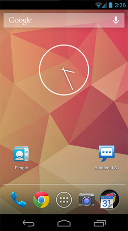 Screenshot of home screen of Android 4.3 Jelly Bean running in Nexus